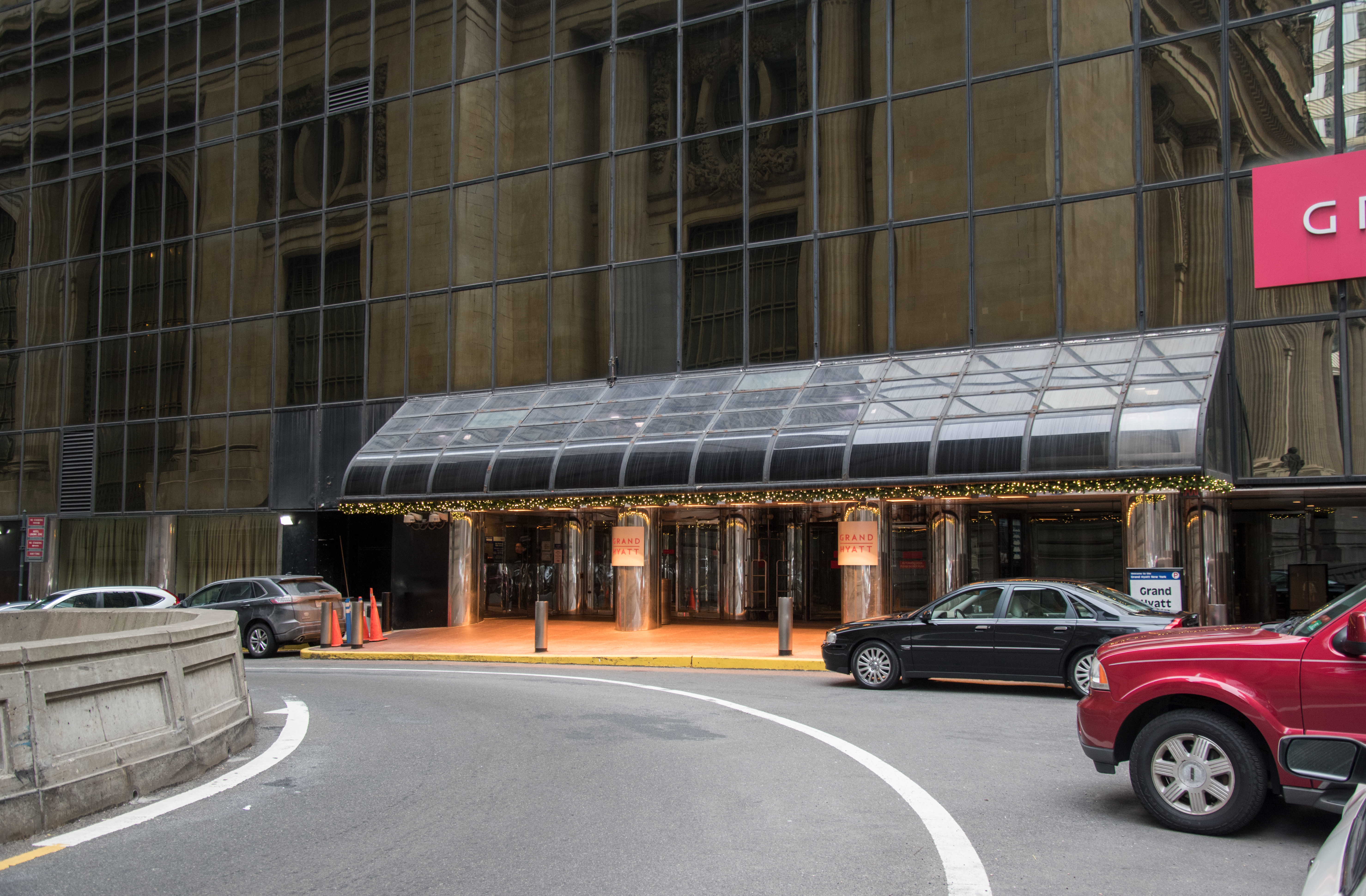 Grand Hyatt taxi stand atop New York City's Grand Central Terminal in 2019. taken as part of a scheduled photoshoot with three other Wikipedians on January 7, 2019.